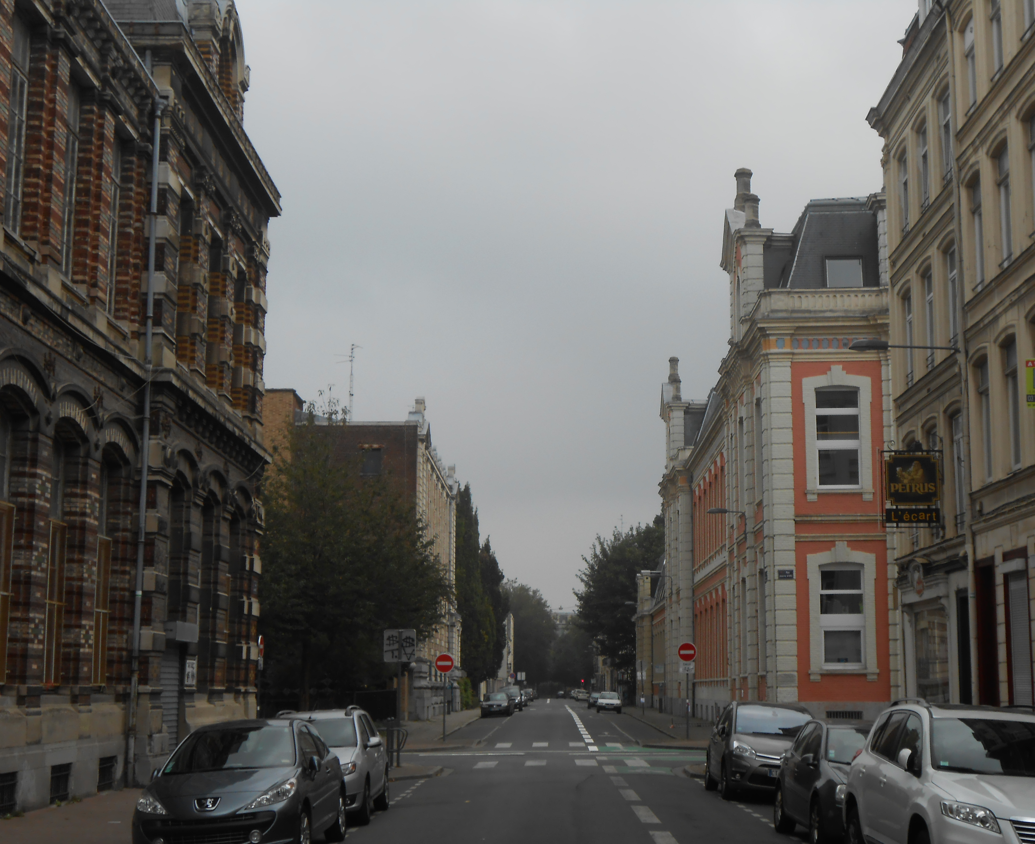 Université de Lille - Facultés rue Jean Bart - Institut Industriel du Nord IDN